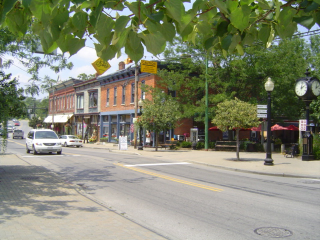 A look down East Loveland Avenue in the Historic Downtown section of Loveland, Ohio, looking to the west from Railroad Avenue. Through the center runs the Little Miami Bike Trail; in the background stands the Bishop Building. Photo taken with a Sony DSC-P72.